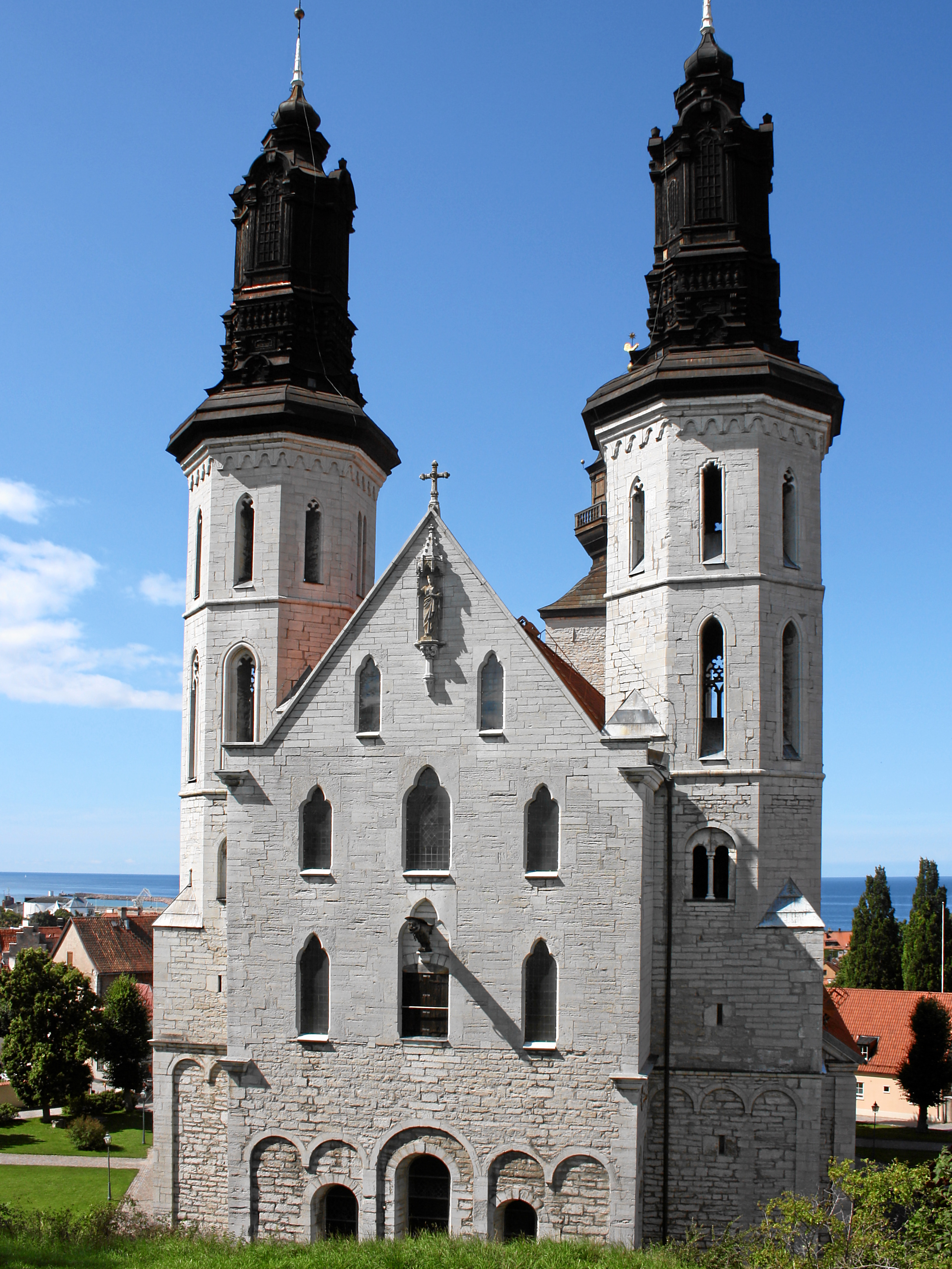 Visby, Sweden. Protestant cathedral, exterior view from east.